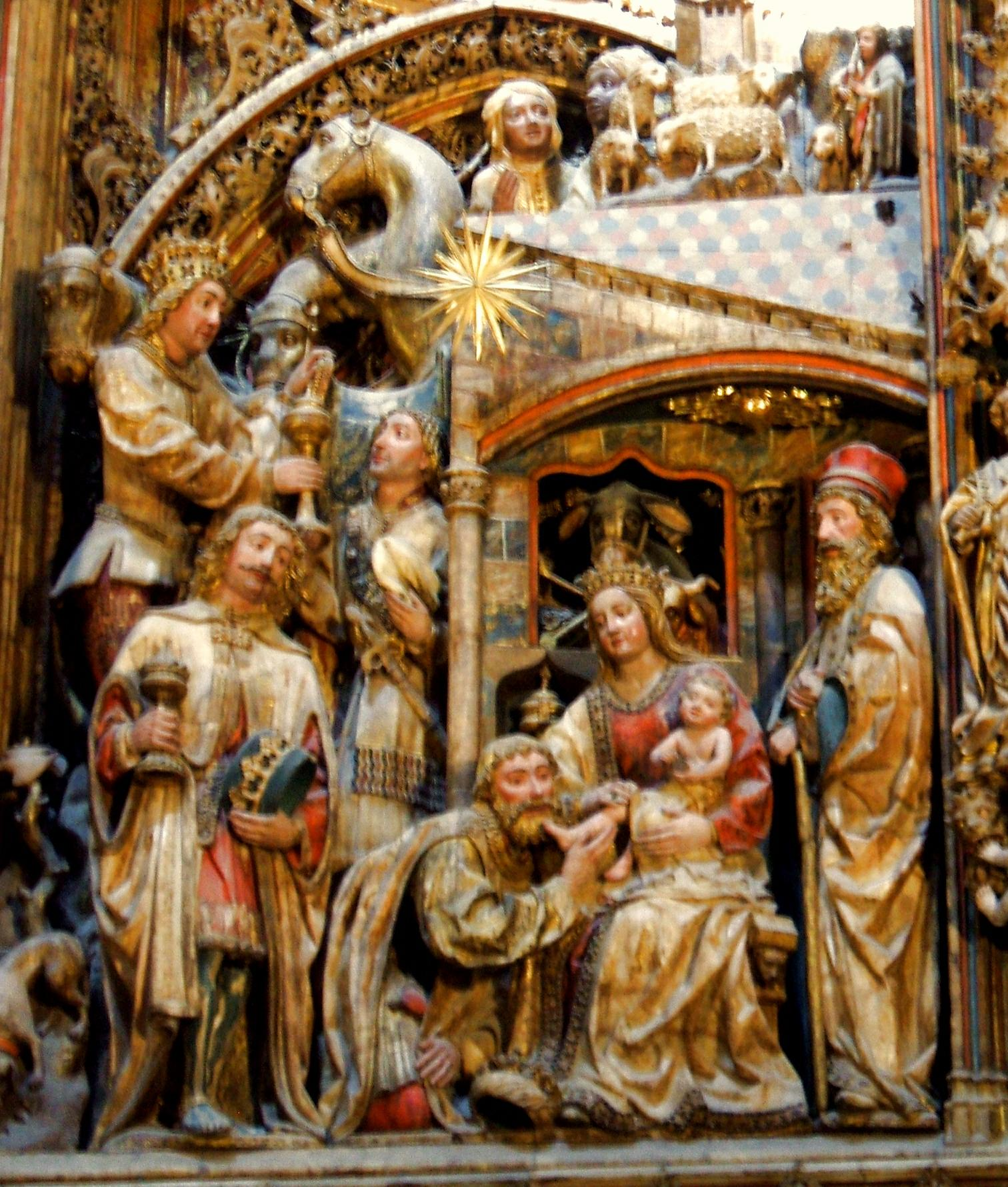 Relieve de la Epifanía, Retablo Mayor de la Catedral del Salvador (La Seo) de Zaragoza (Aragón, España)